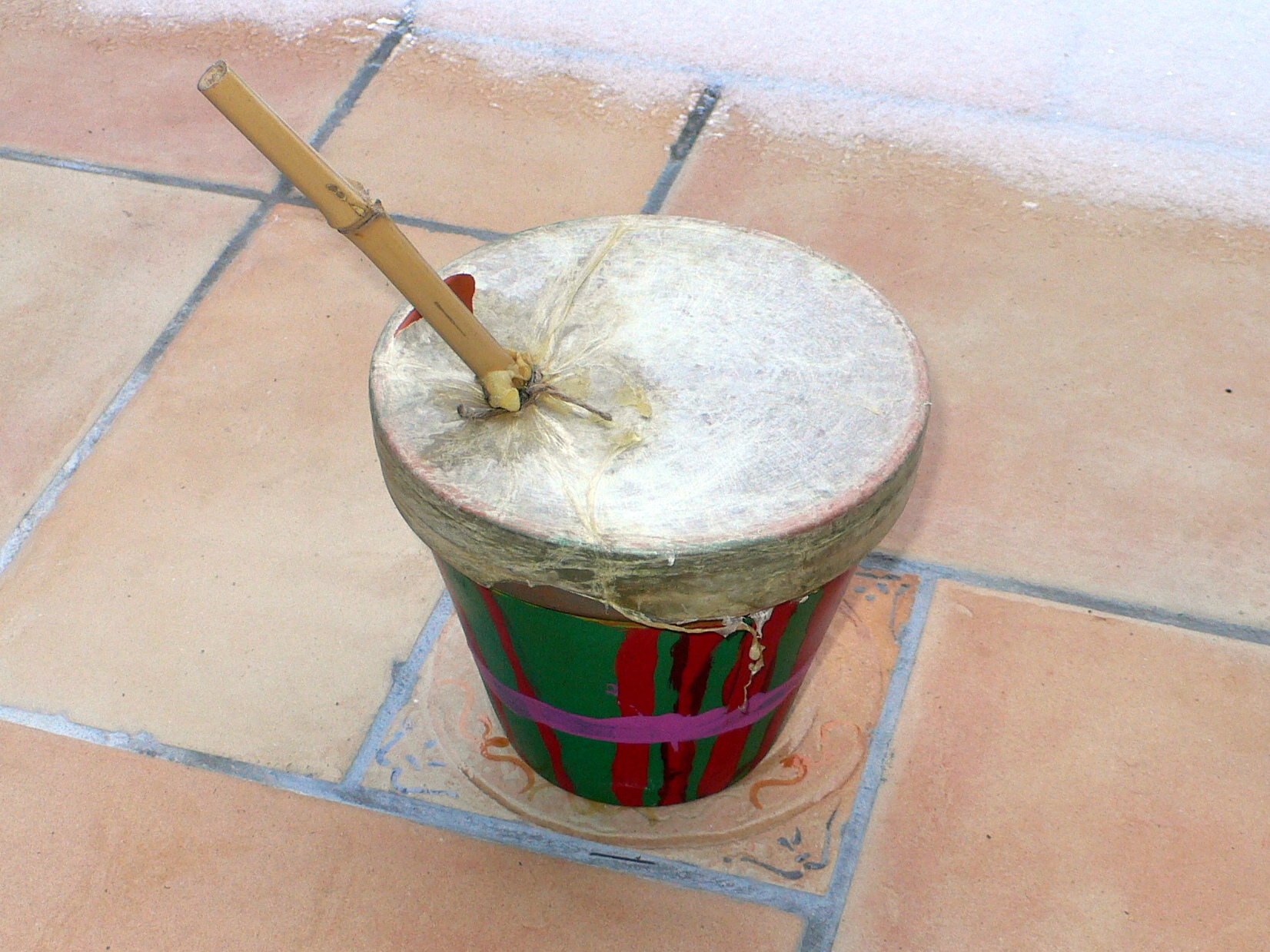 "Rummelpott", a gadget used to make noise at "Rummelpottlaufen"